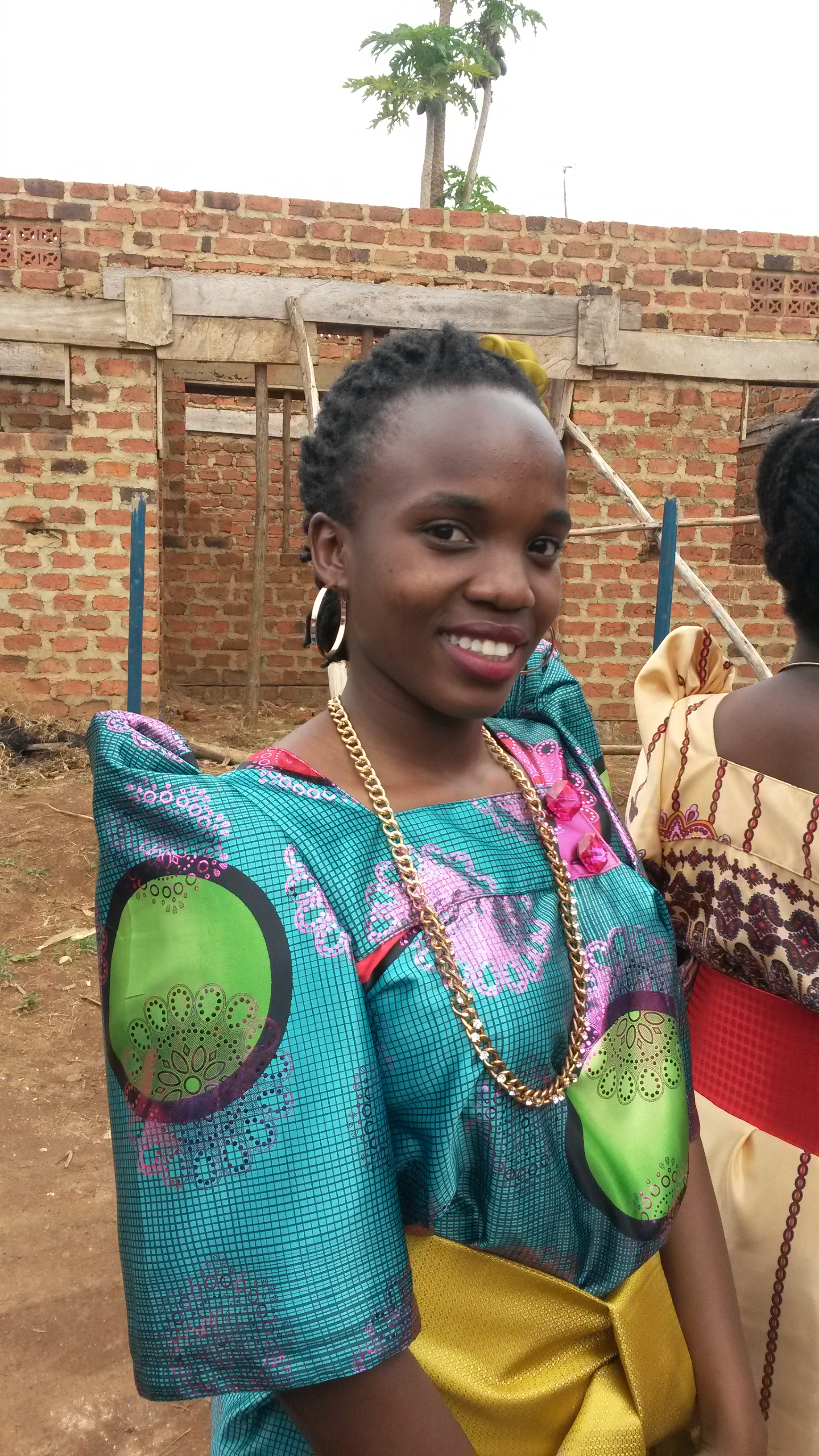 Multiple colour gomisi This is an image of Cultural Fashion or Adornment from Uganda